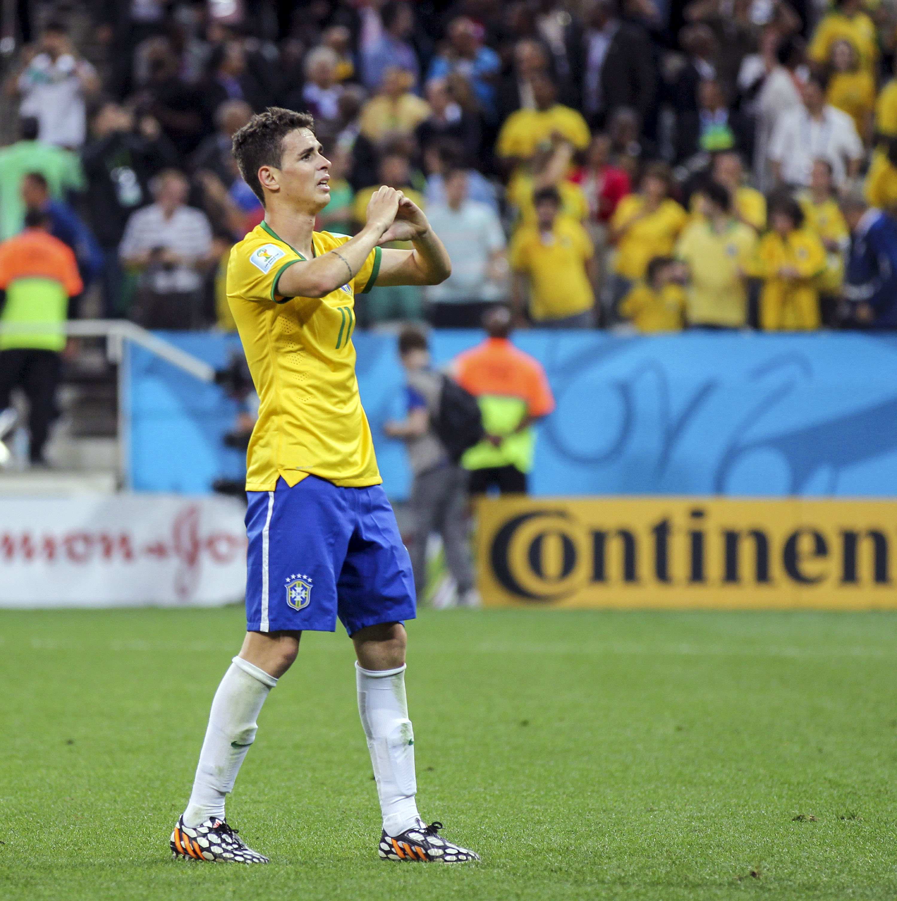 Brazil and Croatia match at the FIFA World Cup 2014-06-12